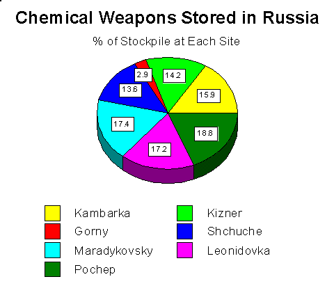 Geometric data chart